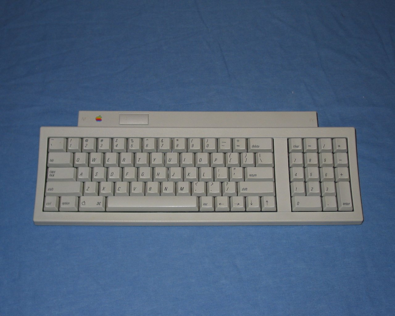 Photo of an Apple Keyboard II